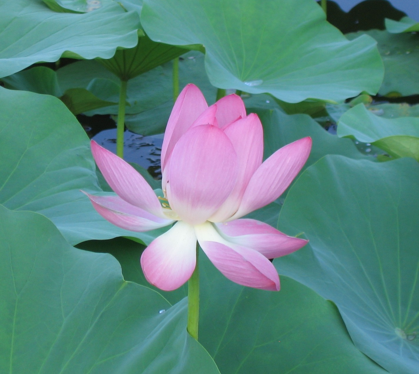 pink lily flower